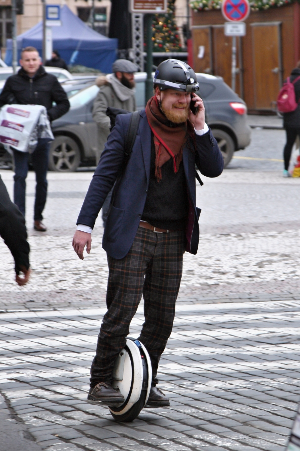 Tomáš Sedláček in Prague, 2016